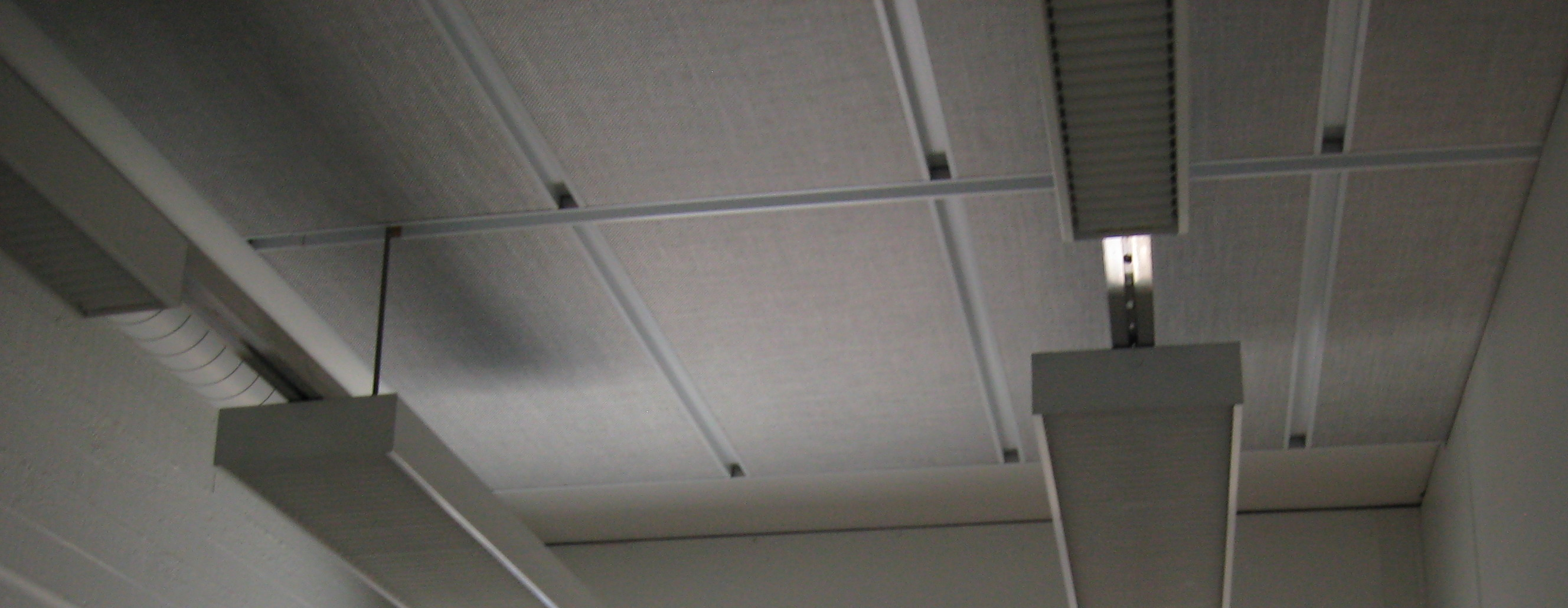 Acoustic material on the ceiling, Helsinki, Finland.